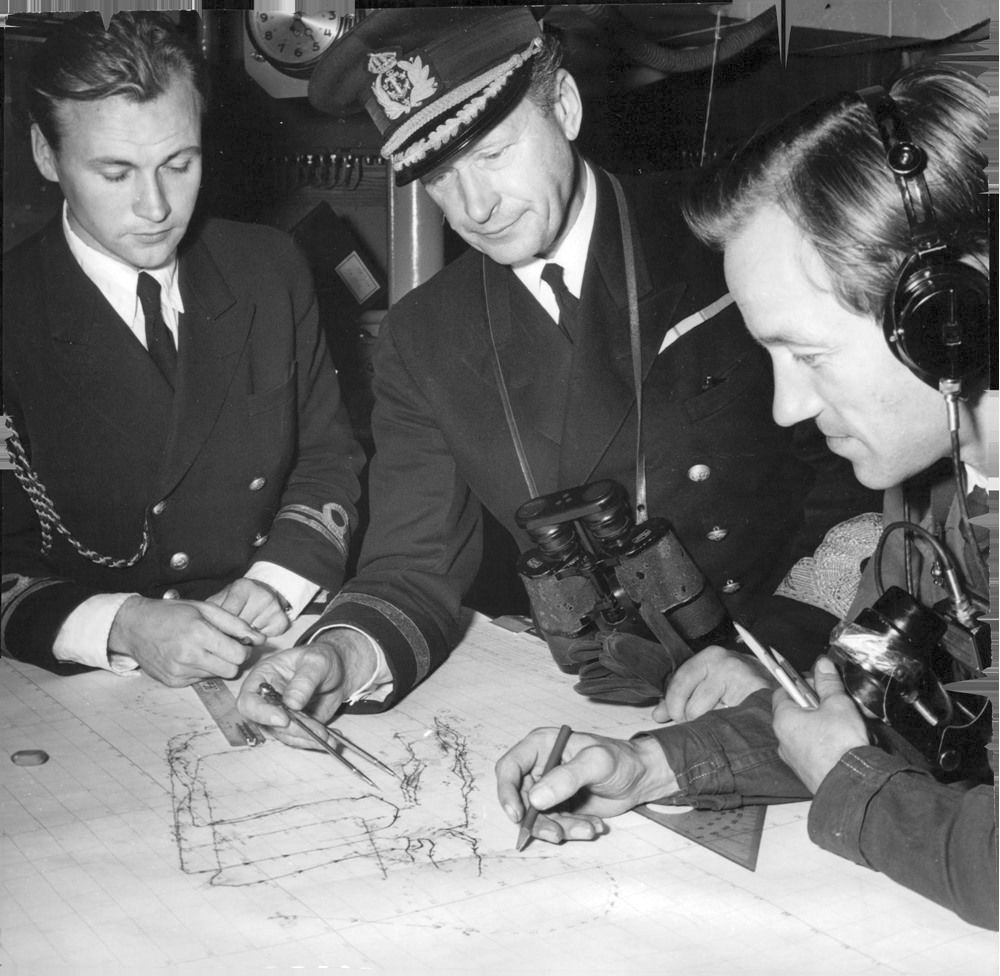 Admiral Erik af Klint together with two of his aides in the Tre Kronor radar center. The submarine tender Patricia, with the king, three cabinet ministers, eight governors and a number of invited aboard was the cruiser Tre Kronors victim during Monday night's "Operation Gauntlet", the penultimate stage of the Navy's major war exercise in the Baltic Sea.